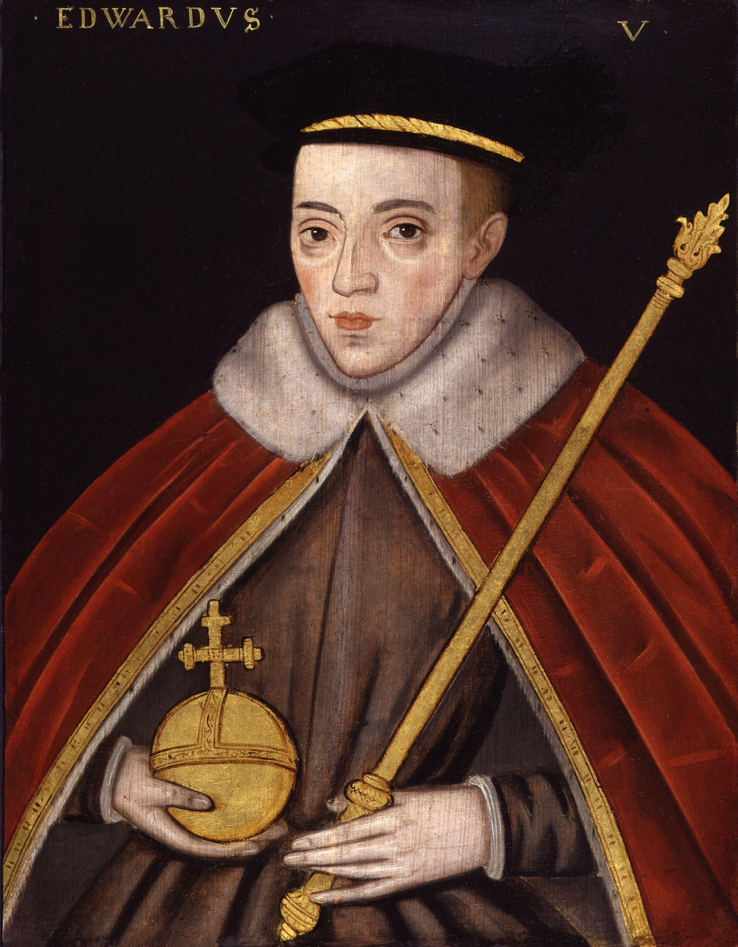 King Edward V, by unknown artist. All images in this batch have an unknown author, but there is strong evidence it was first published before 1923 (based mainly on the NPG's estimated date of the work).